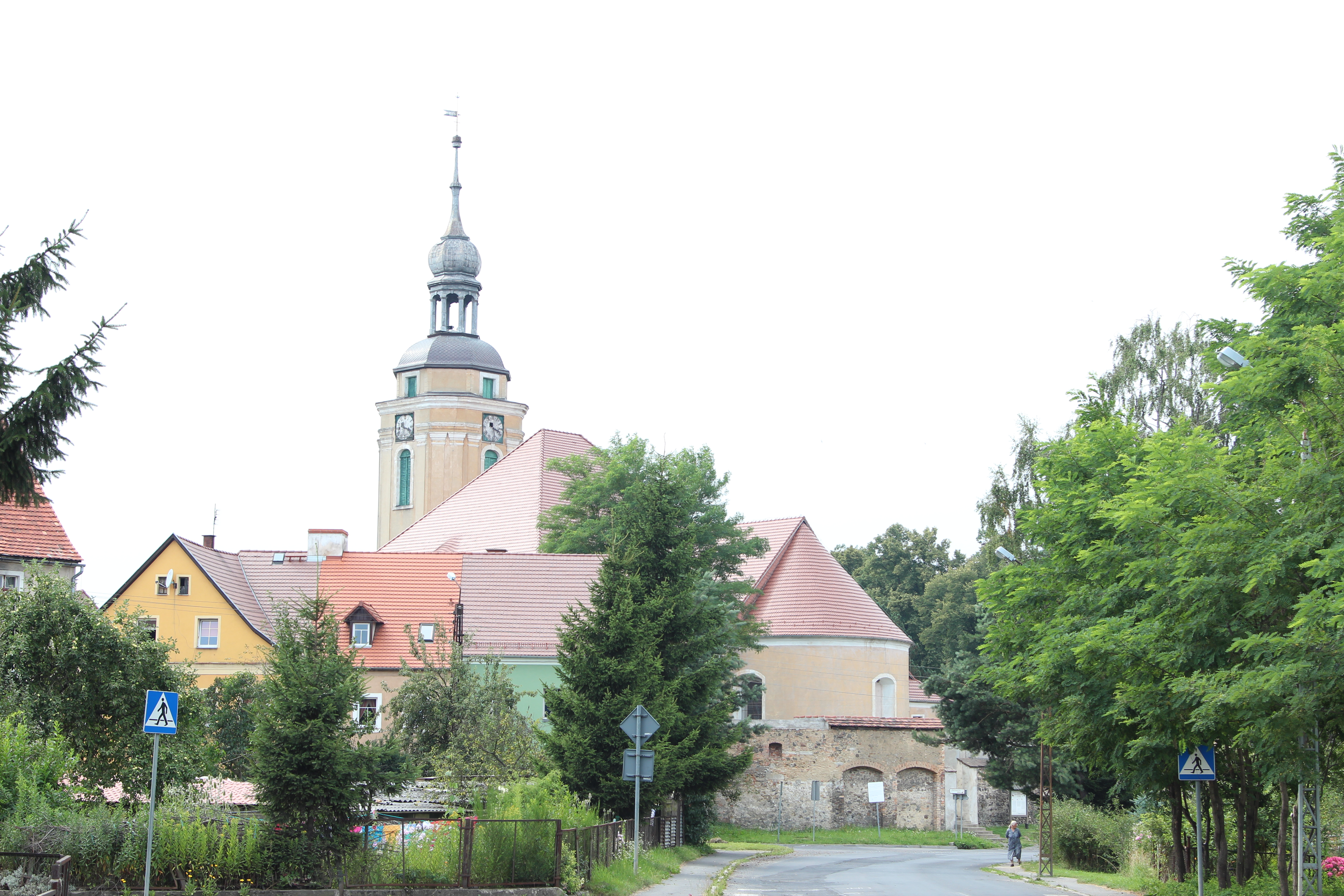 Christ the King church in Leśna